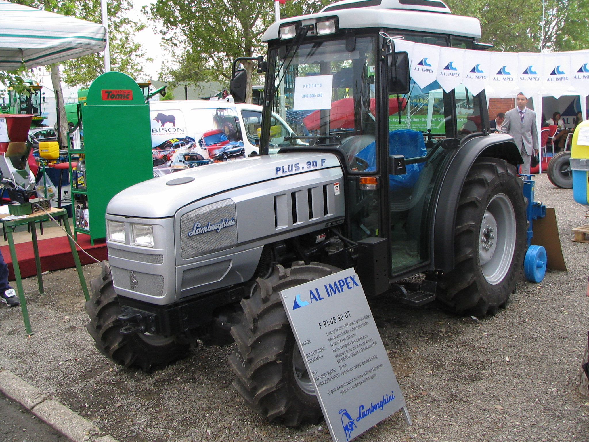 Lamborghini tractor